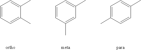 The three forms of xylene.